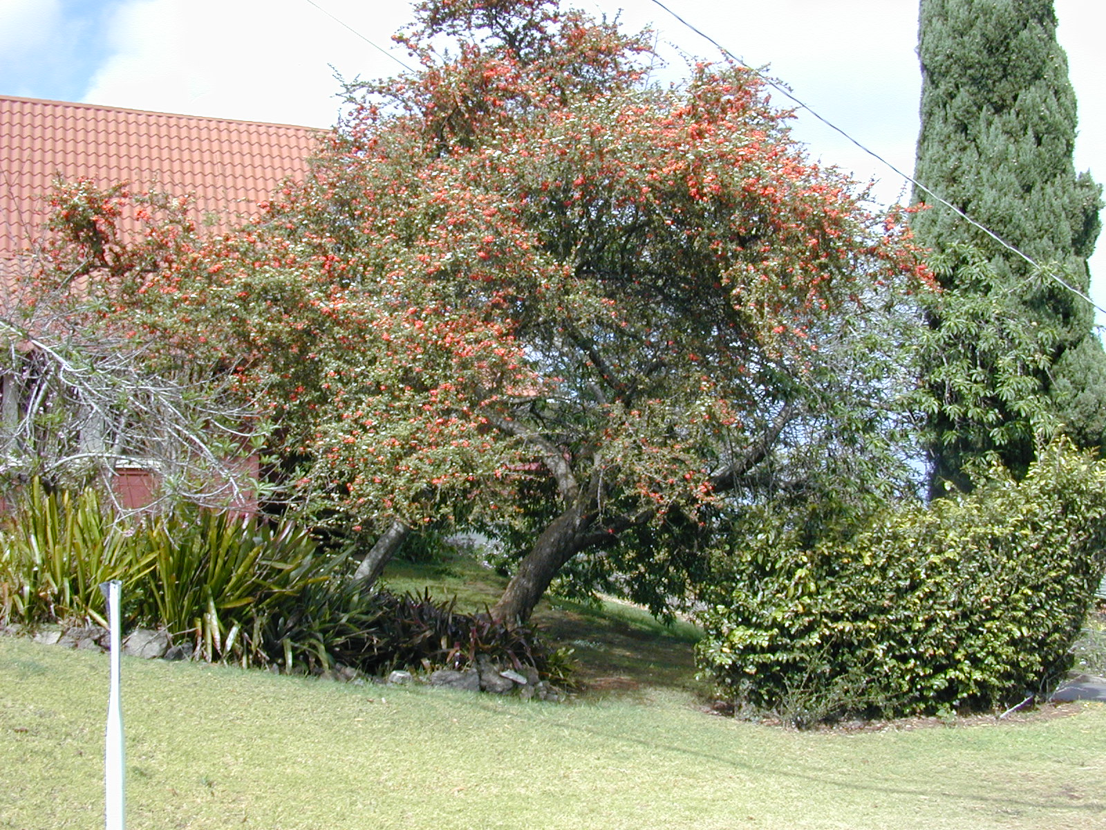 Pyracantha koidzumii (habit in yard). Location: Maui, Crater Road Kula